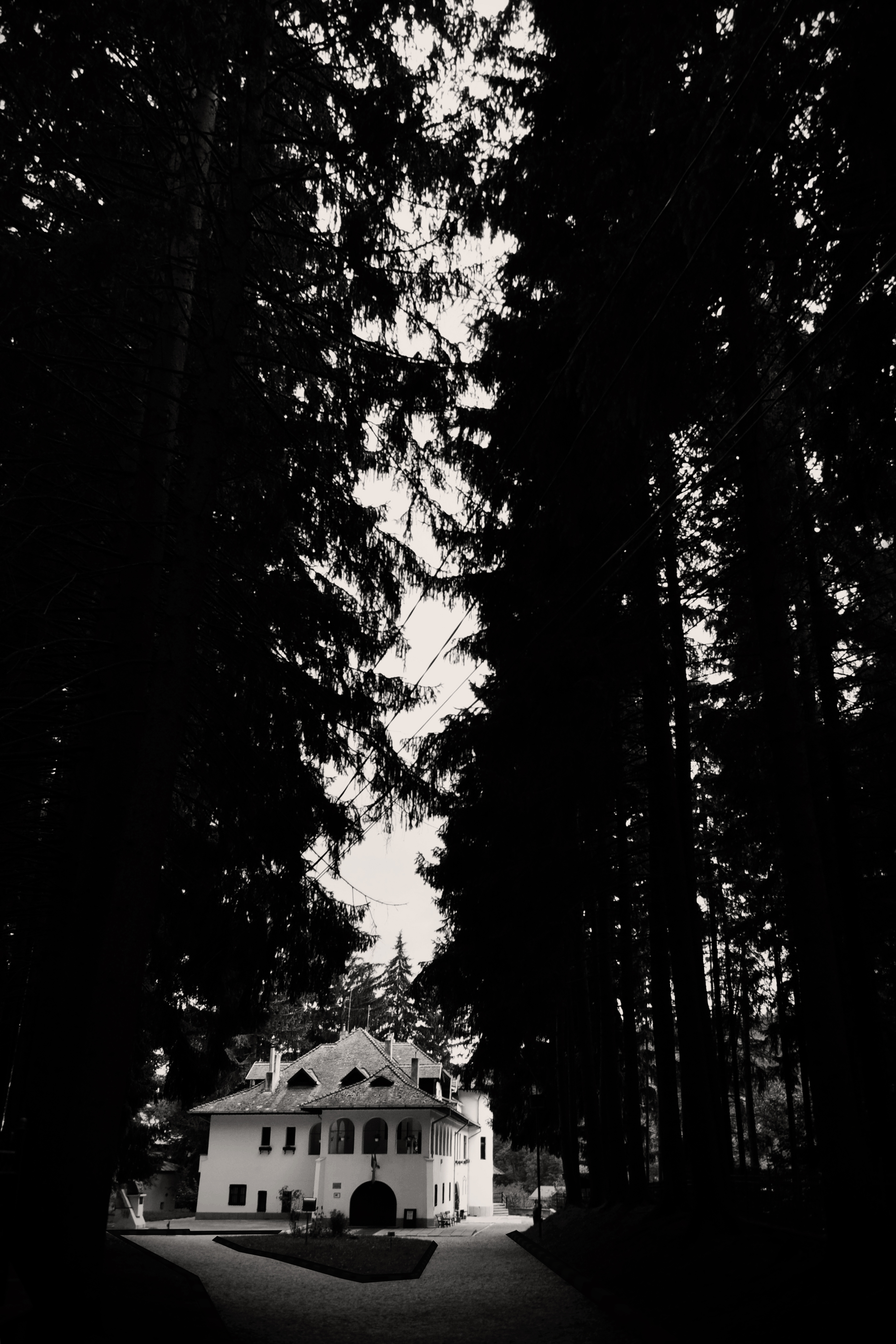 George Enescu memorial house at Cumpatu, near Sinaia, Romania finished in 1926, designed by George Enescu and architect Radu Dudescu